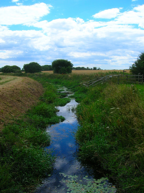 Ferring Rife Rife is the name given to small streams on the coastal plain between Ferring and Pagham Harbour. This looks south from the bridge that crosses it to reach the Ferring Country Centre.